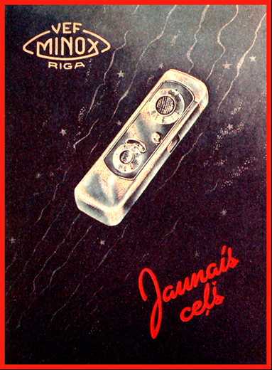 VEF MINOX 1939, publicity. «Jaunais ceļš» («The new way»). Riga, Latvia, 1939.